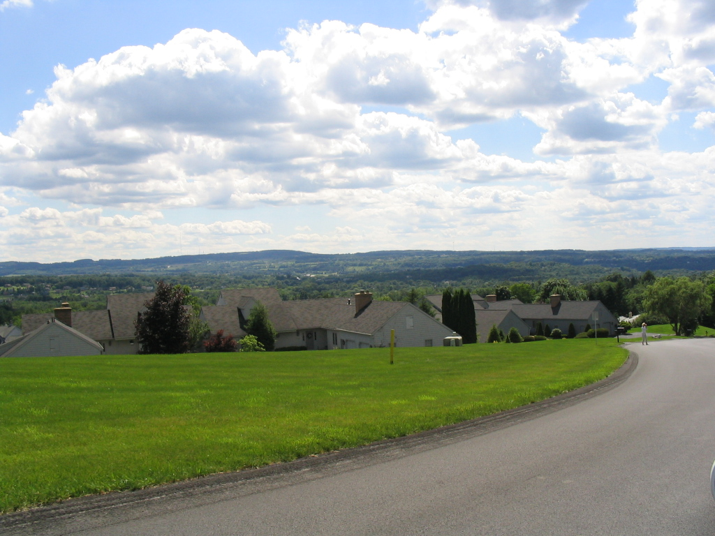 A housing development in the hills of Manlius, New York